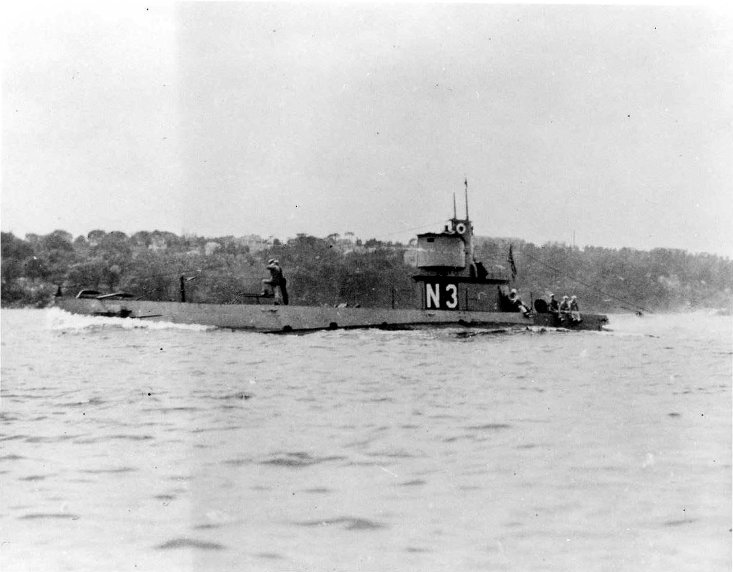 United States Navy submarine , possibly on the St. Lawrence River